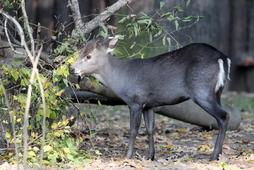 Michie's tufted deer (Elaphodus cephalophus michianus), Magdeburg zoo.